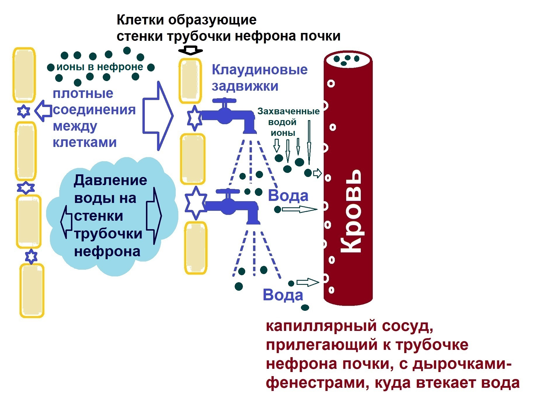 Solvent drag kidney